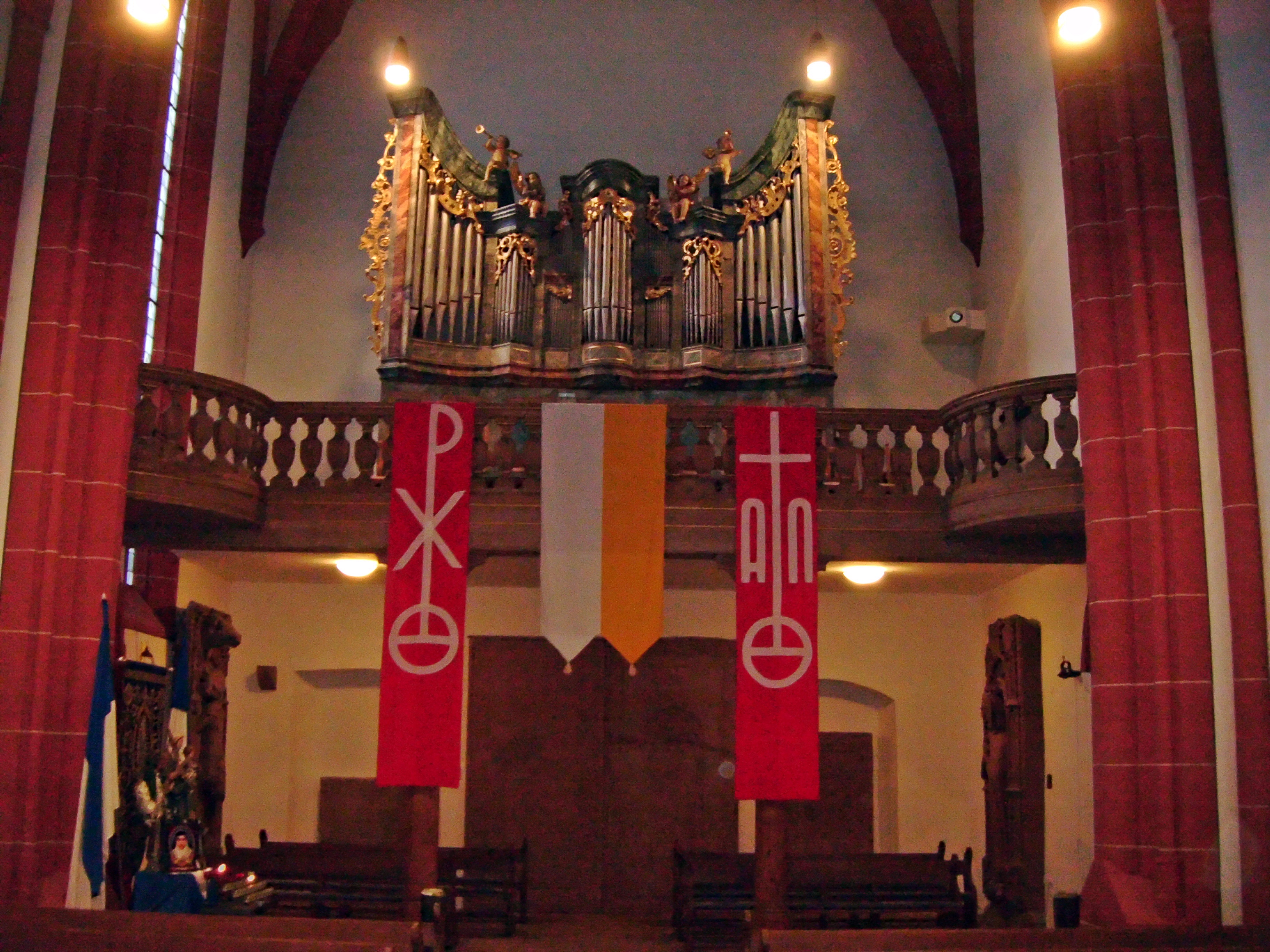 Stiftskirche Neustadt, Orgel, kath, Teil, mit dahinter liegender Trennmauer